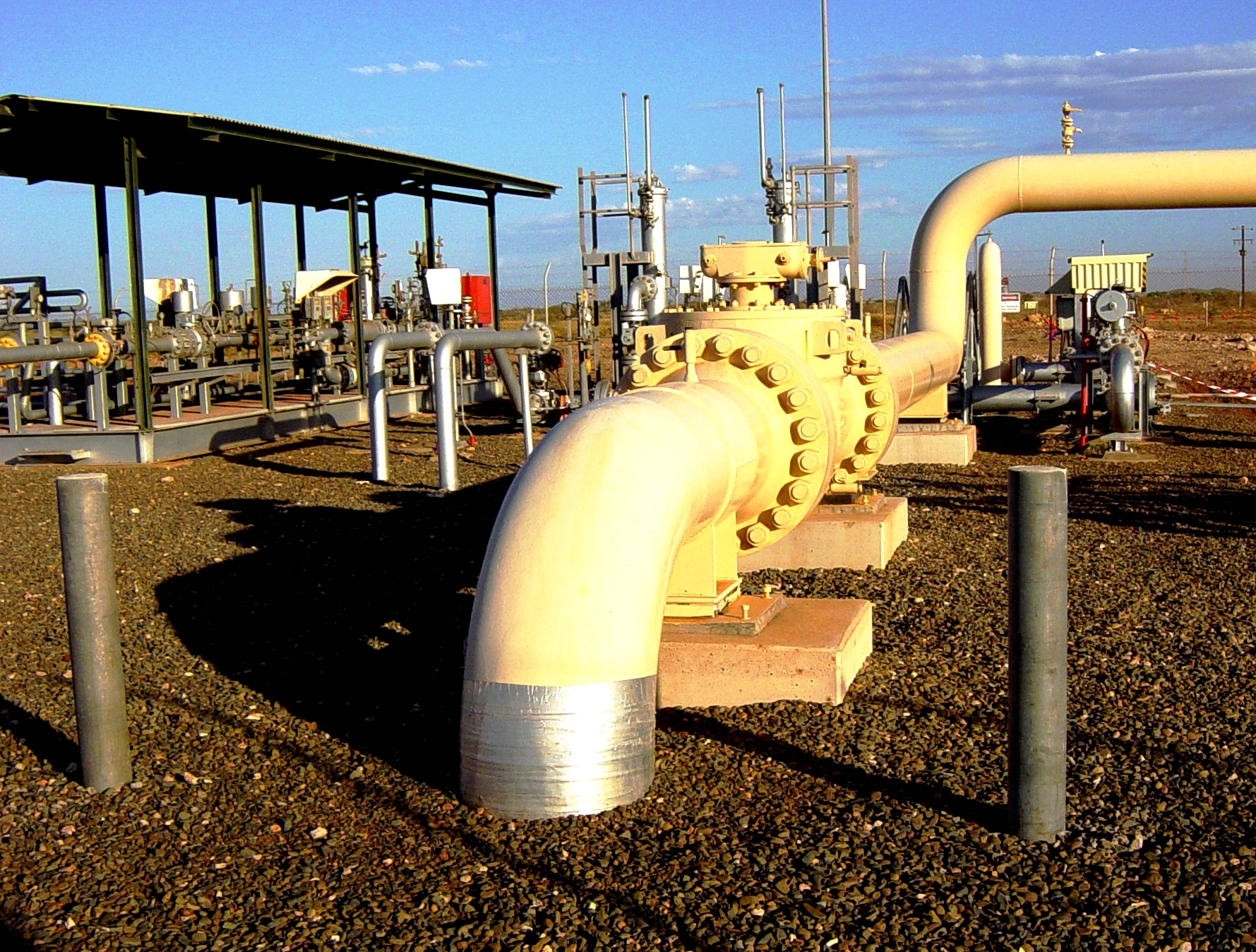 View of Dampier to Bunbury Natural Gas Pipeline at Main Line Valve station #7, near Dampier, Western Australia. The 660mm diameter pipeline is the large yellow pipe in the foreground.